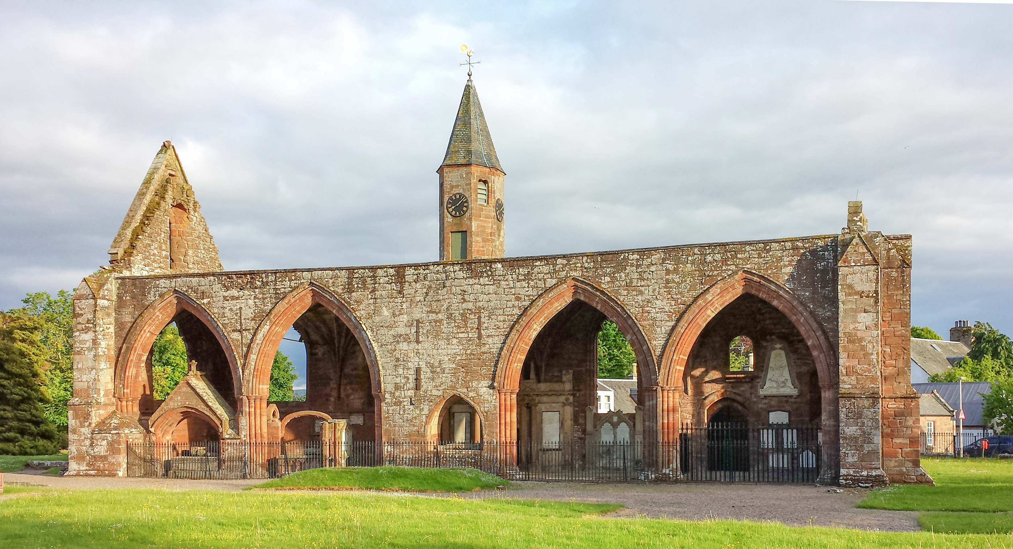 Fortrose Cathedral in the Scottish Highlands